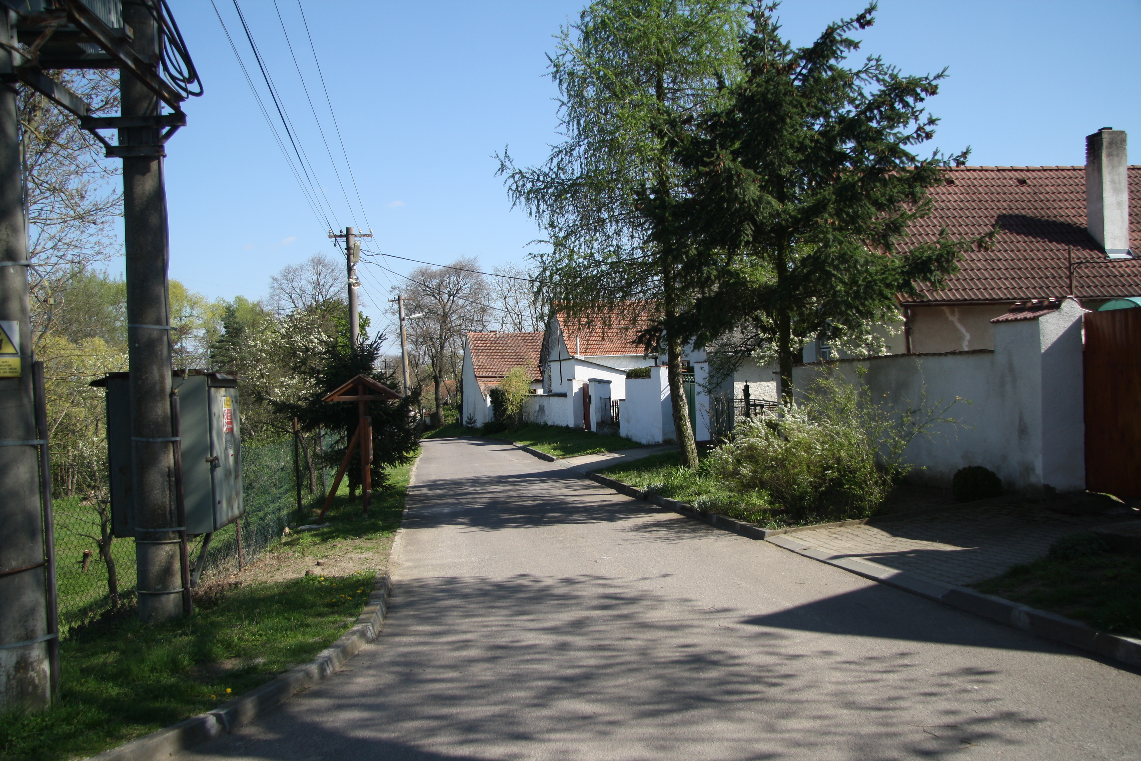 Main street in Kordula, Rešice, Znojmo District.